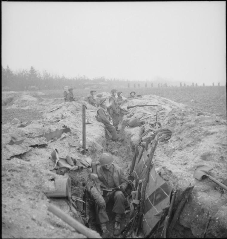 The British Army in North-west Europe 1944-45 Argyll and Sutherland Highlanders, 15th (Scottish) Division, in captured German trenches, 8 February 1945.